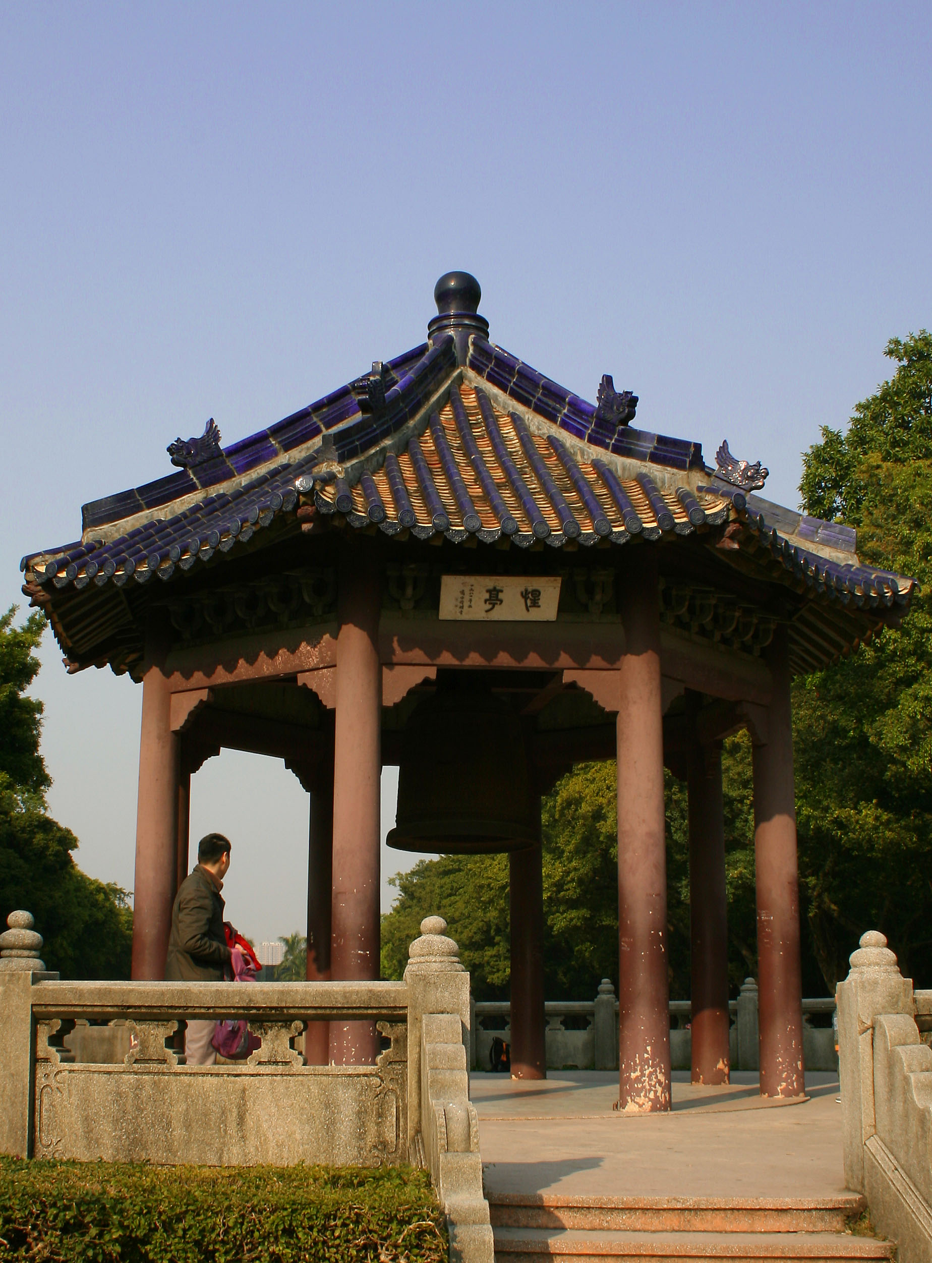 Xing Pavilion of Sun Yat-sen University